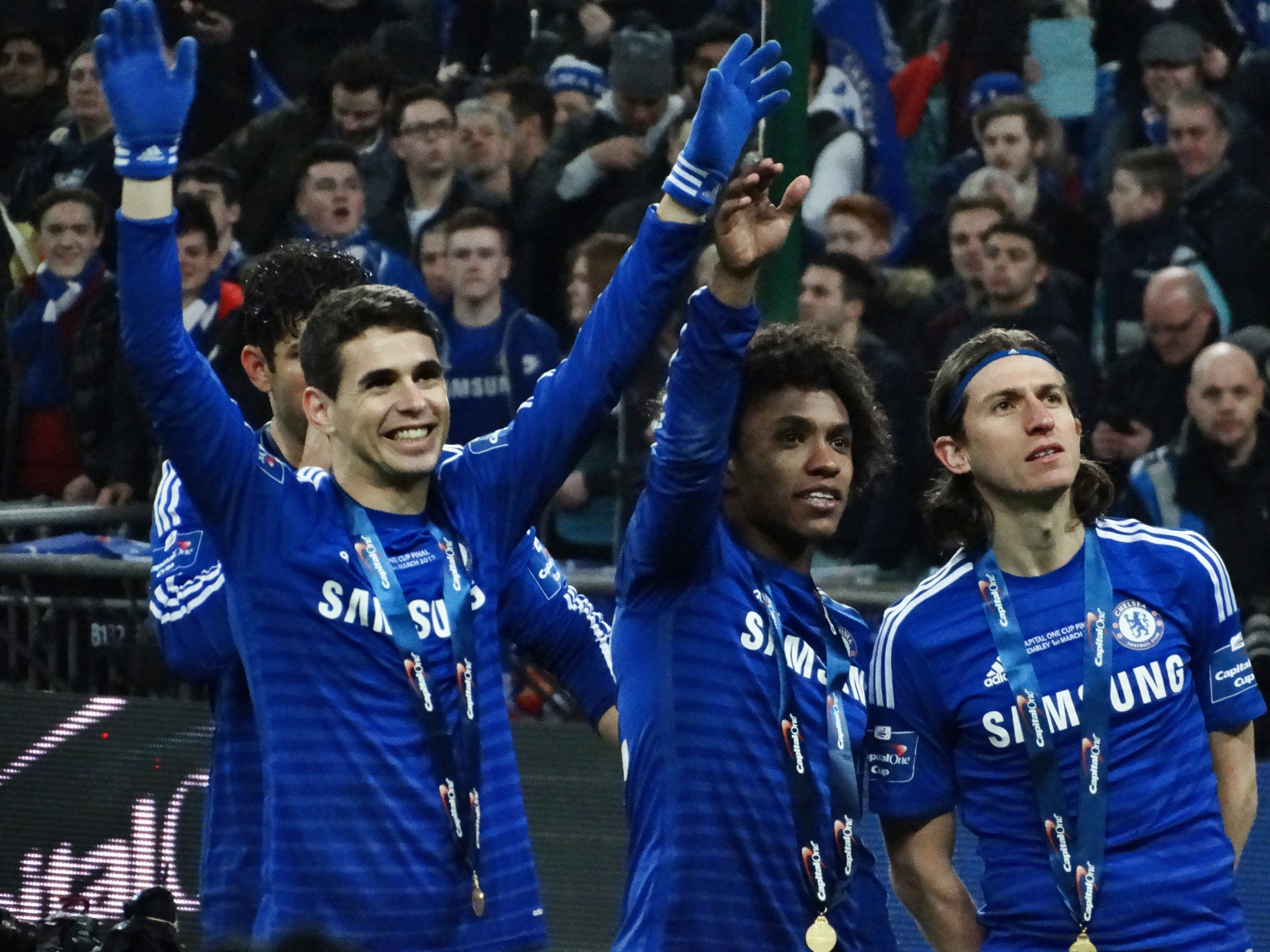 Chelsea 2 Spurs 0 Capital One Cup winners 2015